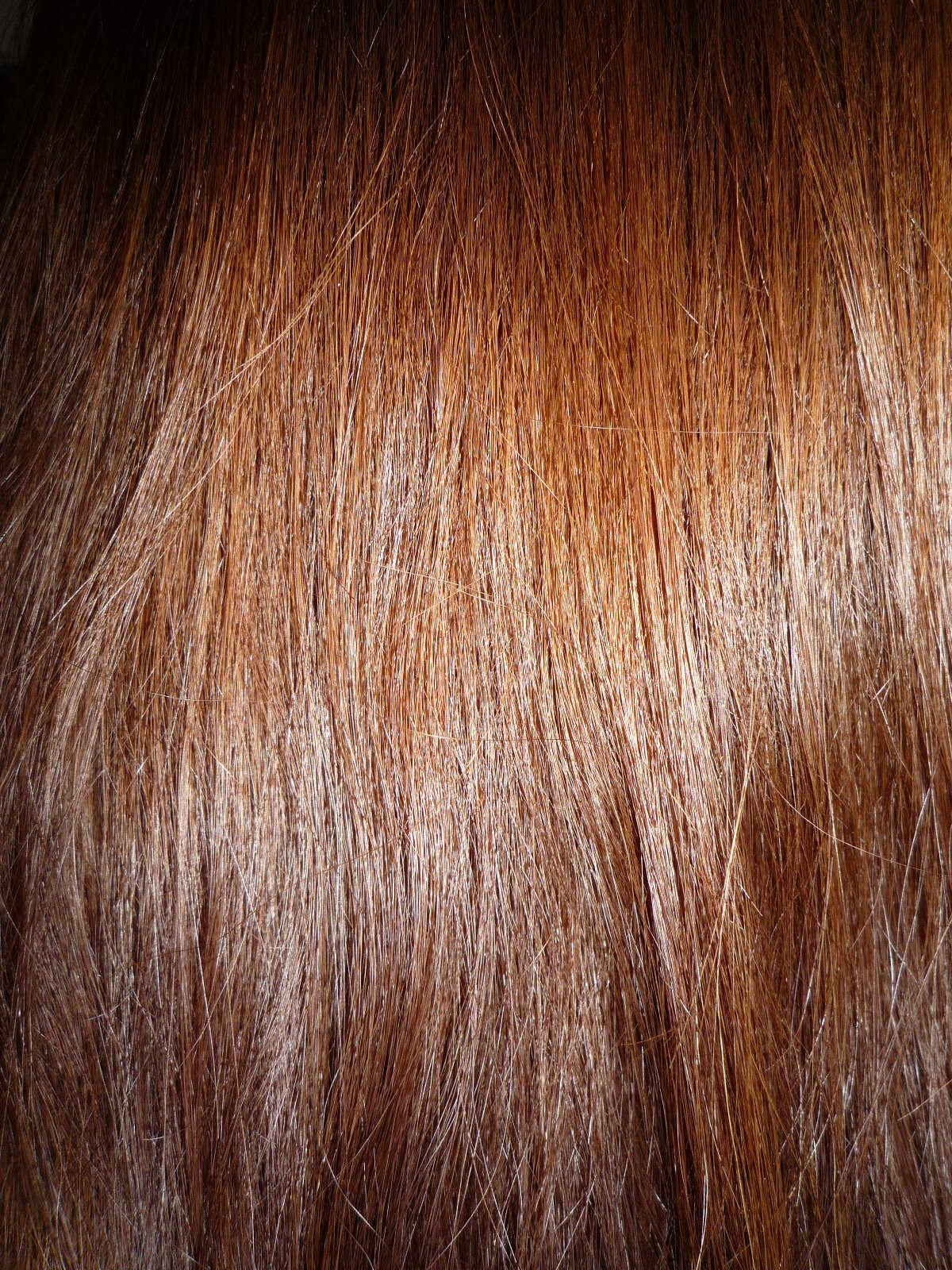 Woman with long brown hair, close-up view